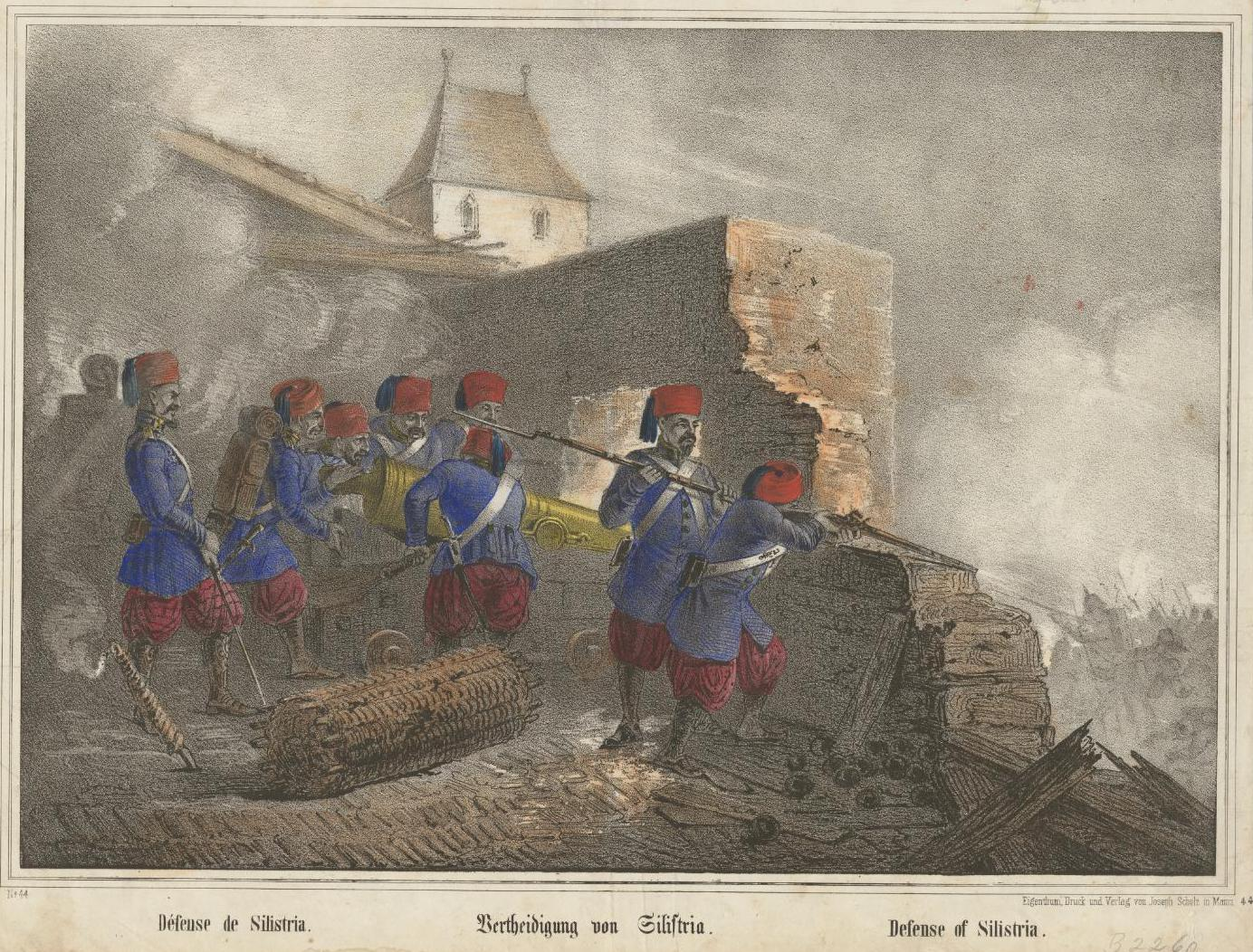 Turkish troops at the defence of Silistria 1853-4